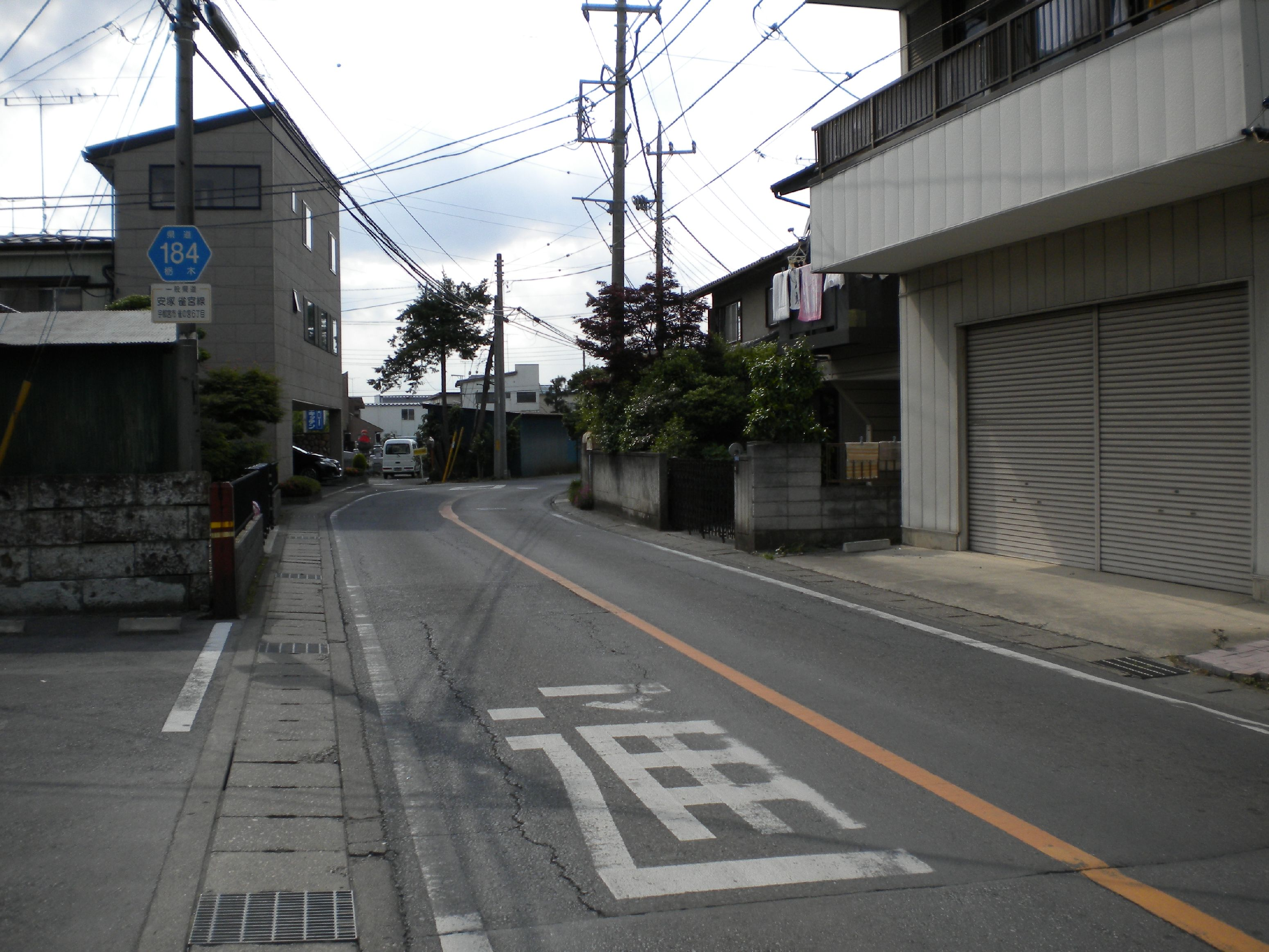 The Tochigi Prefectural Road Route 184 in Suzumenomiya, Utsunomiya City